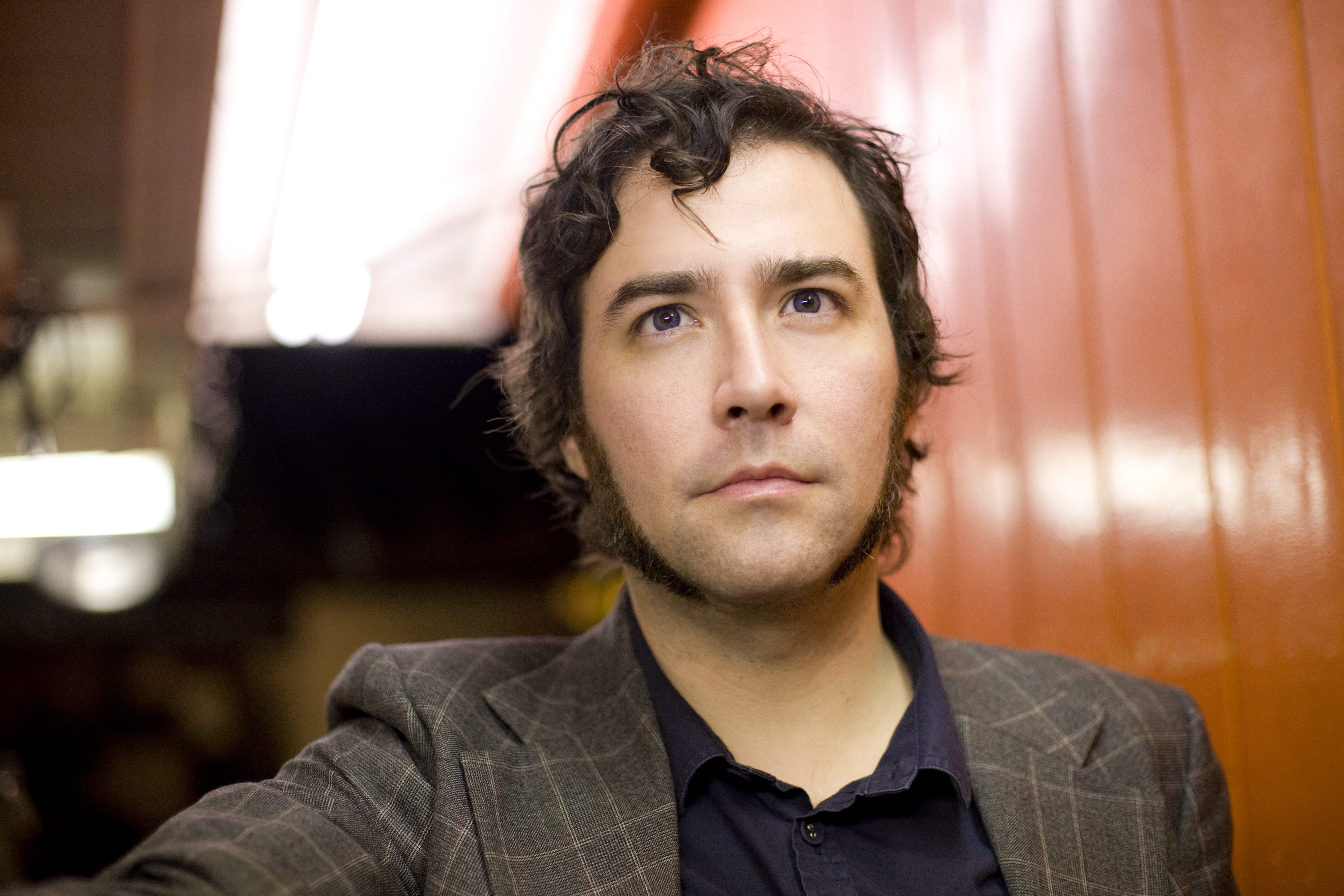 Bleu press photo